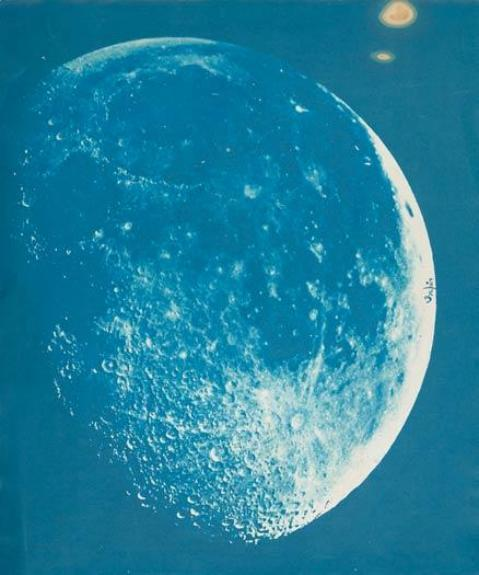 The Moon, Henry Draper, 1863.